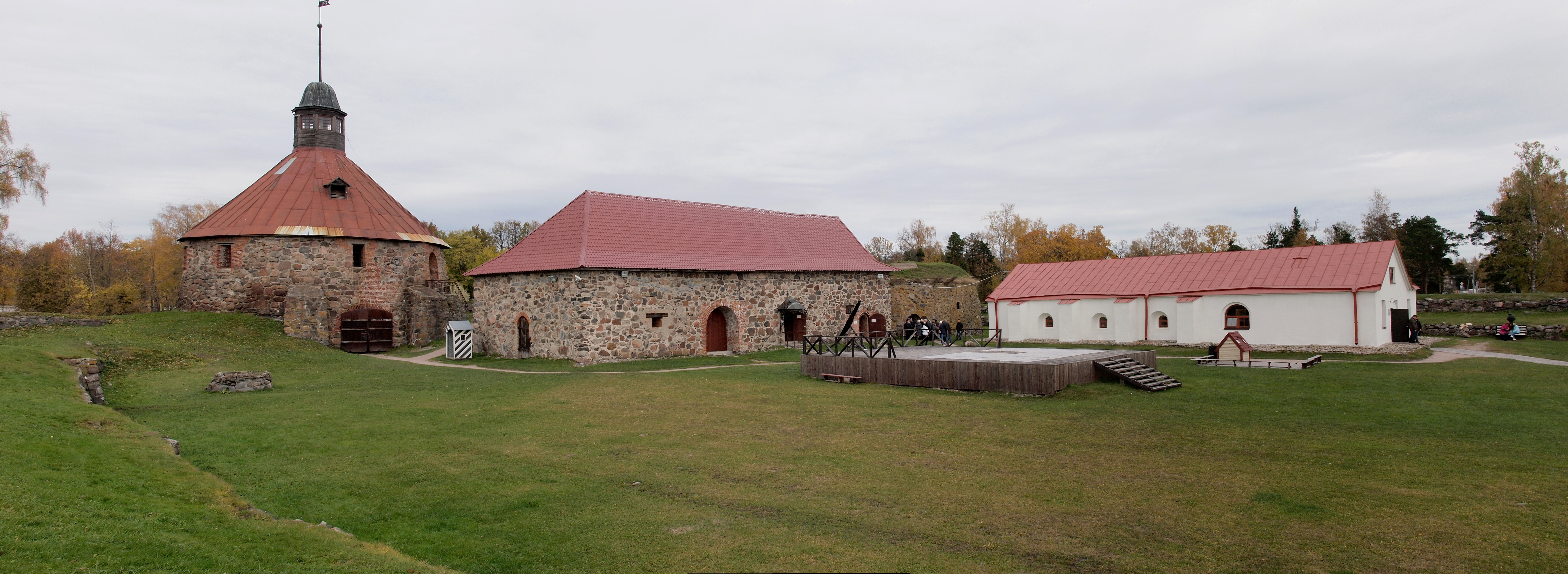 Panorama view of Korela fortress